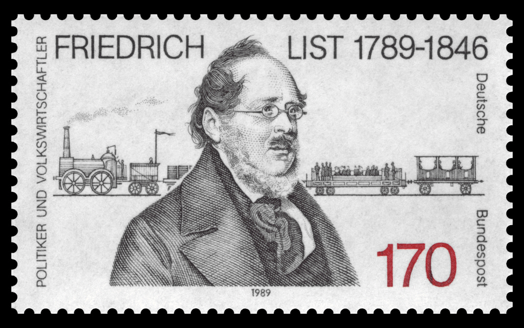 200th day of birth of Friedrich List (1789—1846)